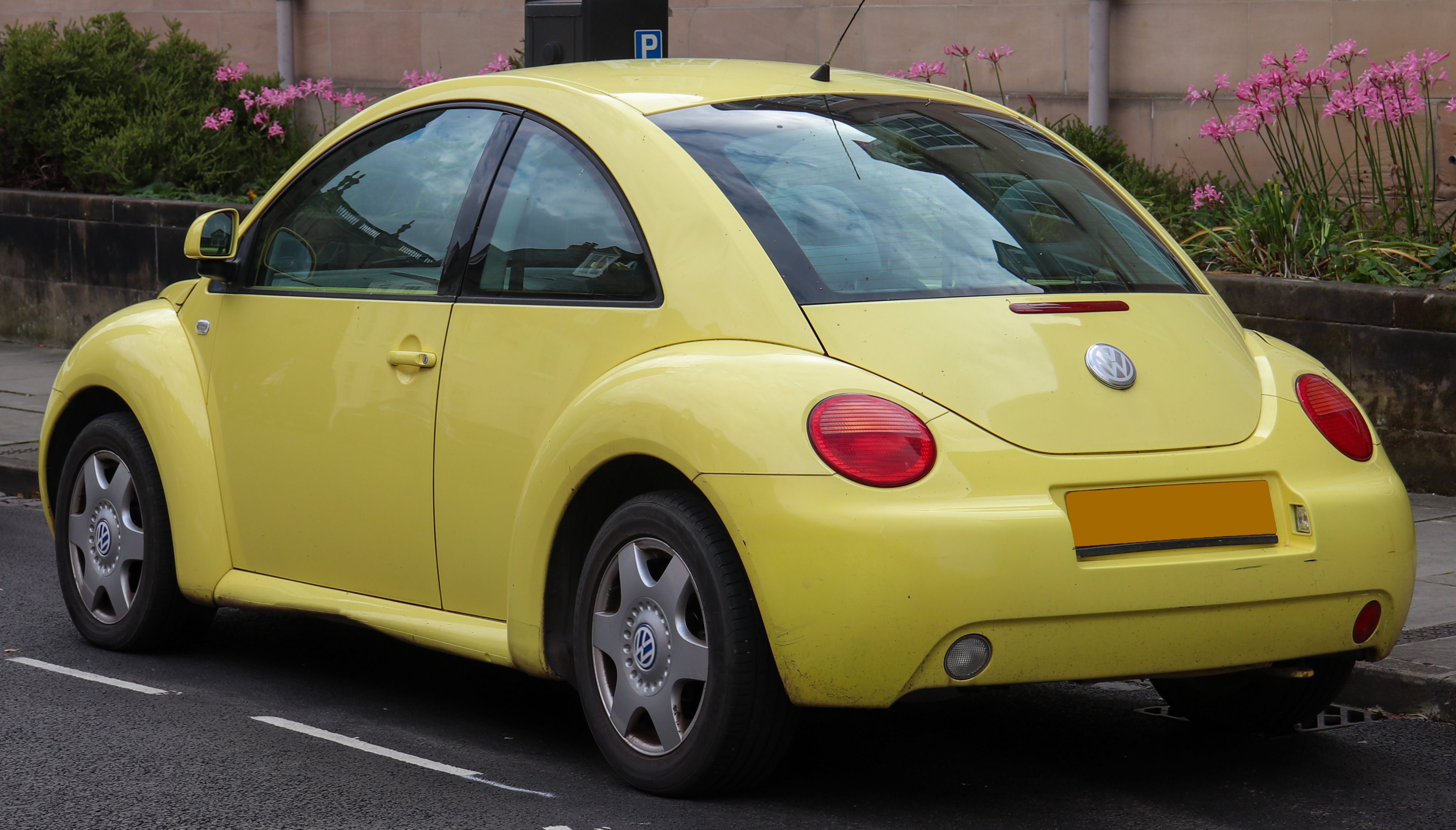 2001 Volkswagen Beetle 2.0 Rear Taken in Warwick